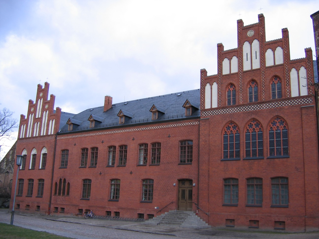 Description: Ritterakademie of Brandenburg an der Havel Source: Own work Date: 04 April 2006 Author: User:Martinum